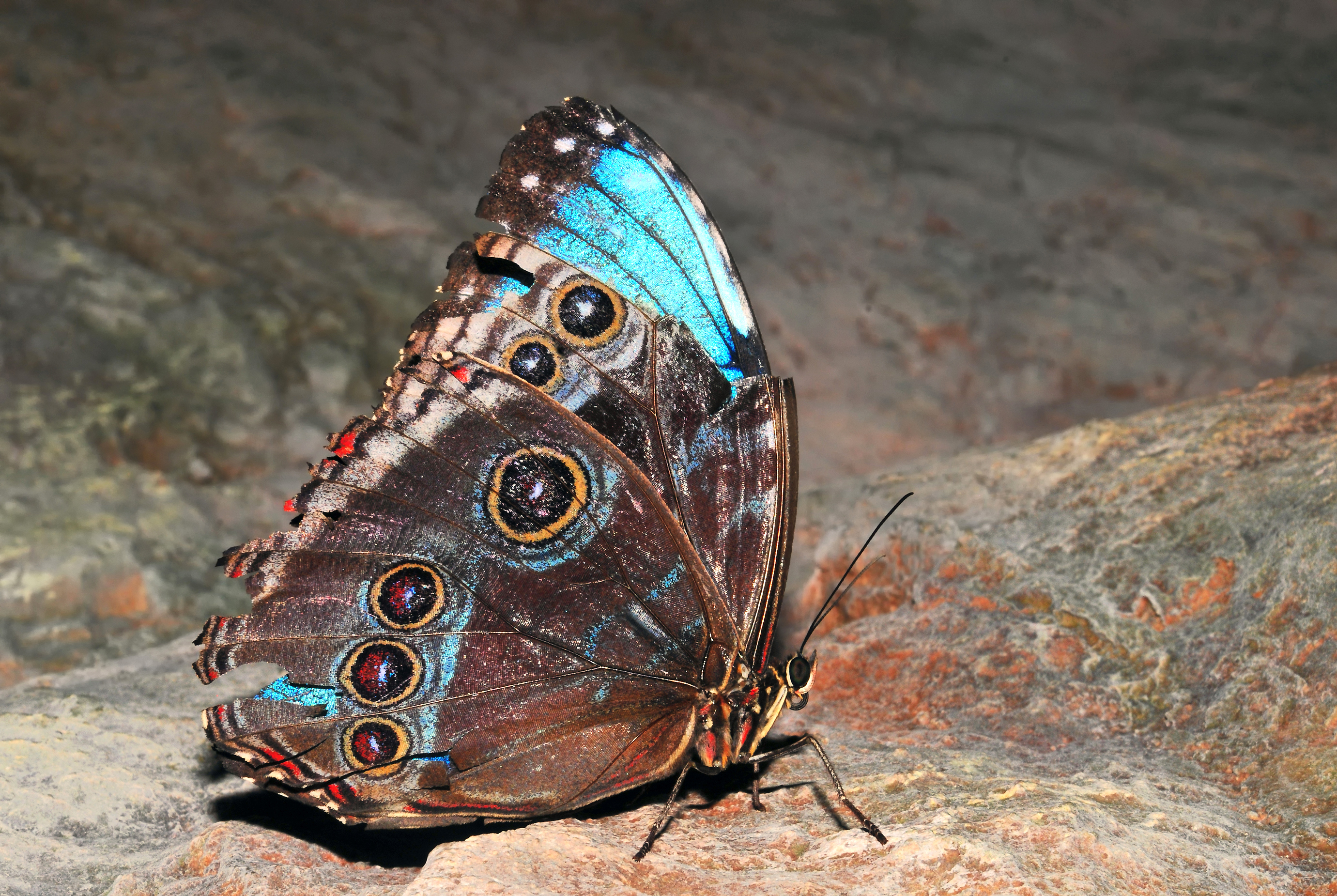 A unhealthy/wing-damaged Morpho peleides at the Schmetterlingshaus (Butterfly zoo) in the Palmenhaus (palm house) near the Burggarten in Vienna, Austria.